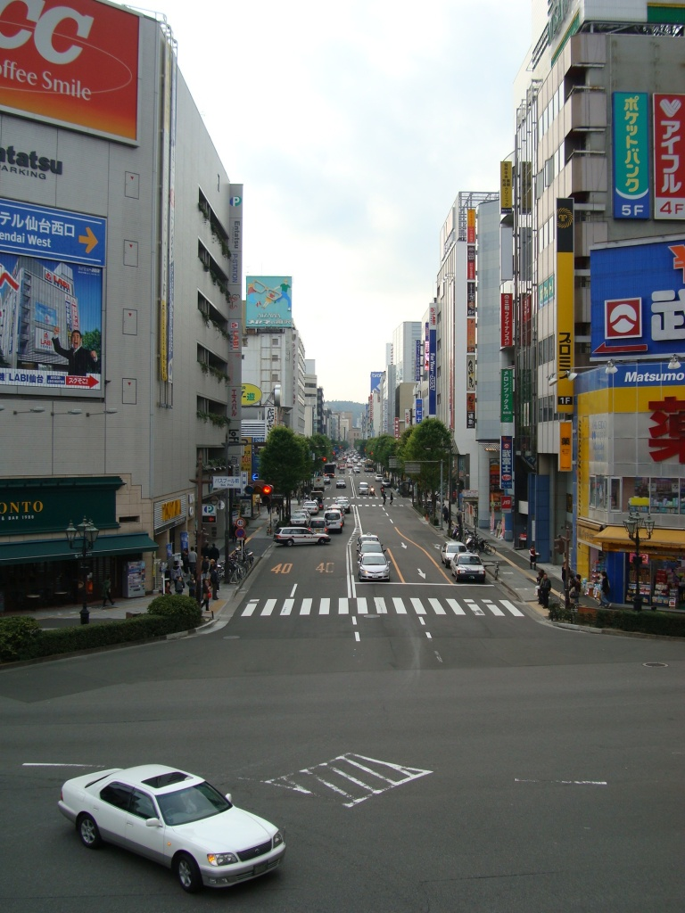 Minami-machi-Dori Avenue near Sendai Station, Japan